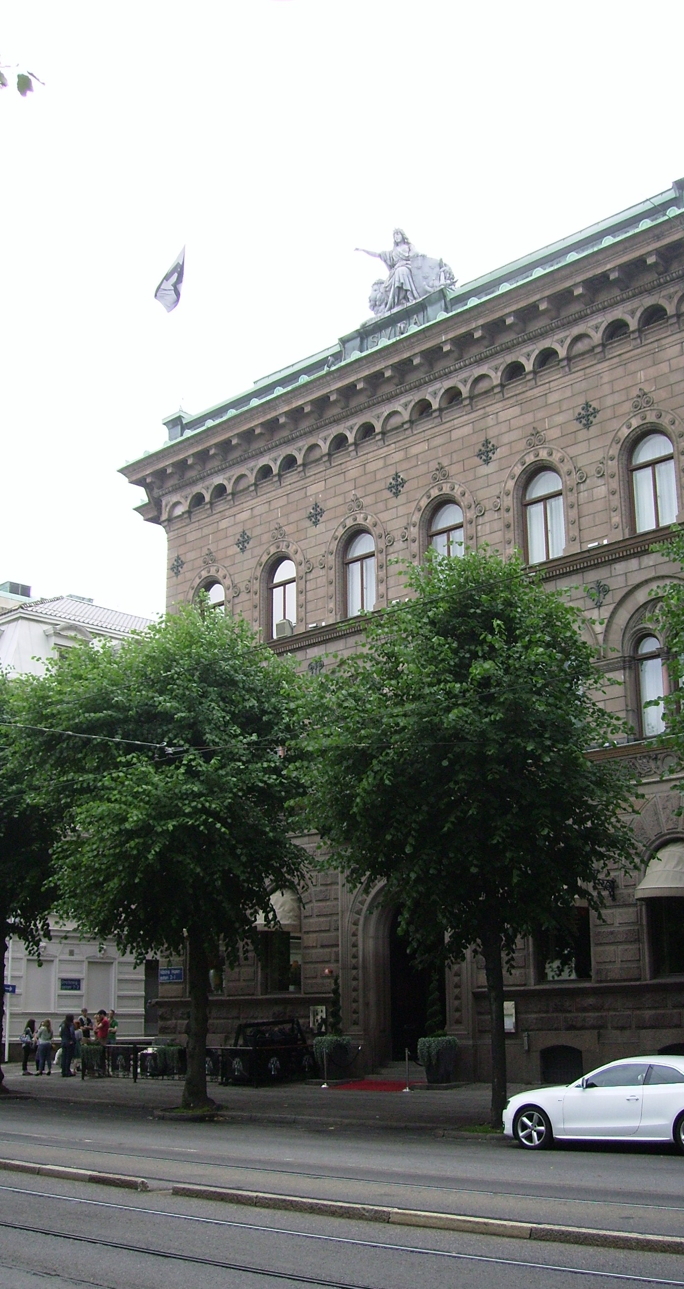 Picture of building at Västra Hamngatan in Gothenburg, former insurrance company Svea.